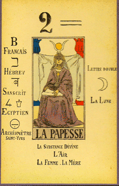 Page with tarot trump design from Papus: Le Tarot Divinatoire. Le Livre des Mystères et les Mystères du Livre. Clef du tirage des cartes et des sorts. Avec la reconstitution complète des 78 lames du Tarot Égyptien et de la méthode d'interprétation. Les 22 arcanes majeurs et les 56 arcanes mineurs. Libr. Hermétique, Paris 1909.